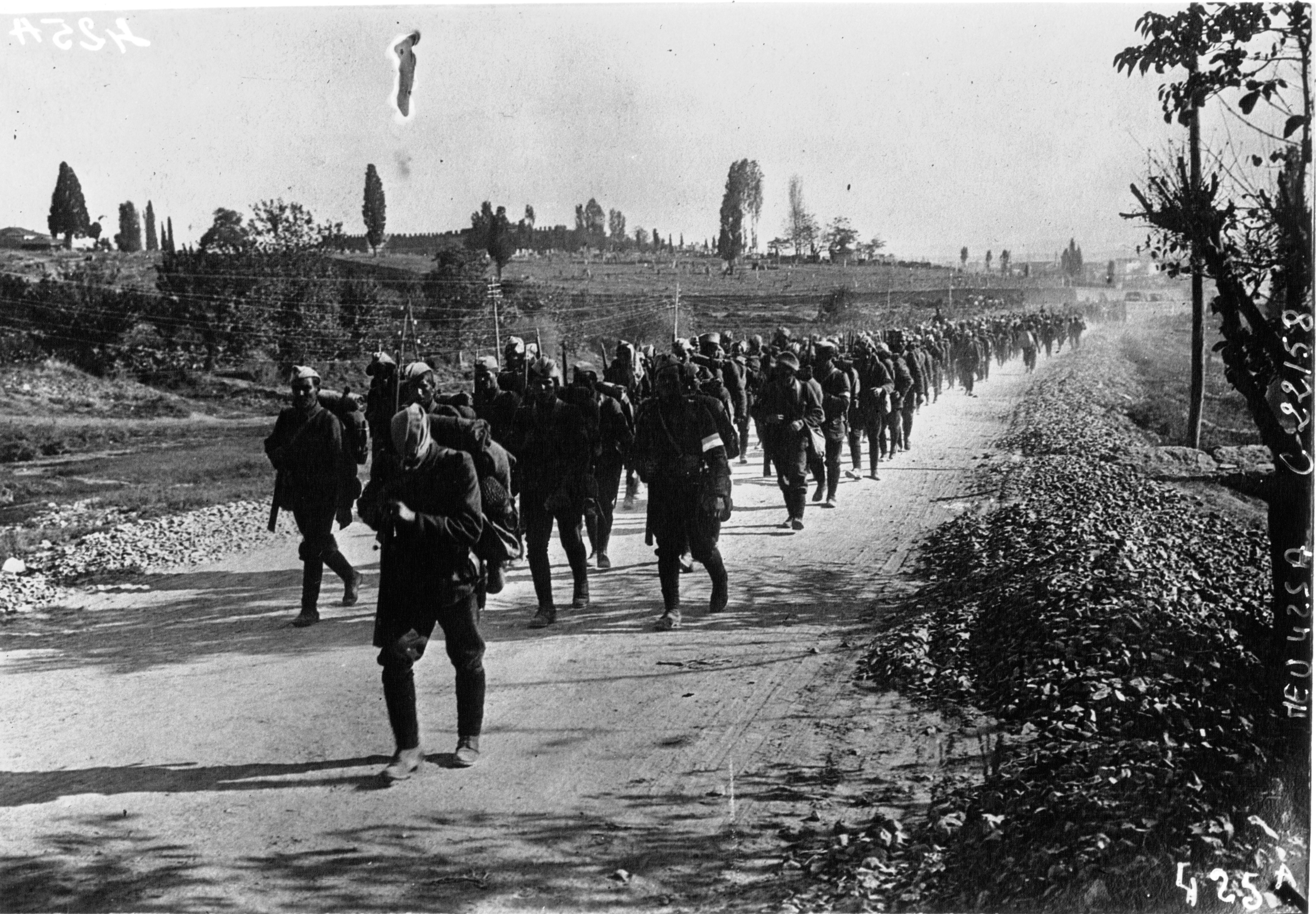 Greek soldiers retreat during the last stages of the Asia Minor Campaign, August-September 1922Türkçe: Yunan askerleri Batı Cephesi'nin son aşamaları esnasında geri çekiliyor, Ağustos-Eylül 1922